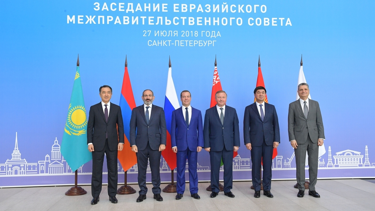 Заседание Евразийского межправительственного совета